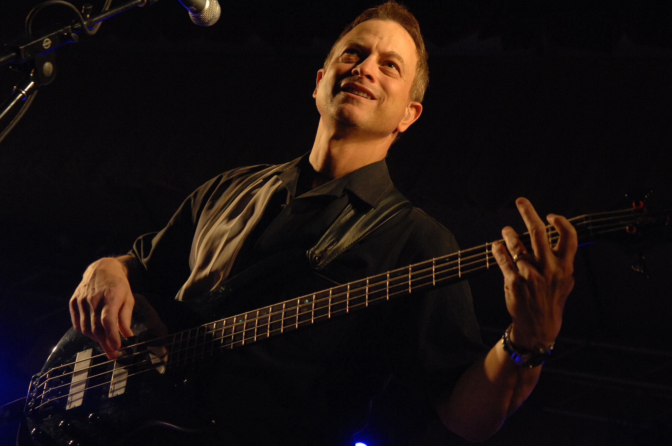 Gary Sinise of the Lt. Dan Band plays the bass for the United Service Organizations entertainment tour at Ellsworth Air Force Base, S.D., Feb. 1, 2008. The private concert for Ellsworth Airmen and their families is the first this year in the series of stateside USO tours.